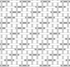 Detail of a diagram of the structure of a balanced 2/2 twill textile.